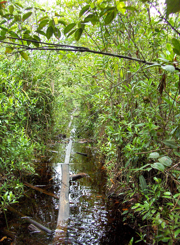 Lowland peatswamp habitat in Borneo. Home to Nepenthes bicalcarata, Nepenthes gracilis, and Nepenthes rafflesiana. Humidity: approx. 90-100%, temperature: approx. 28-30°C.